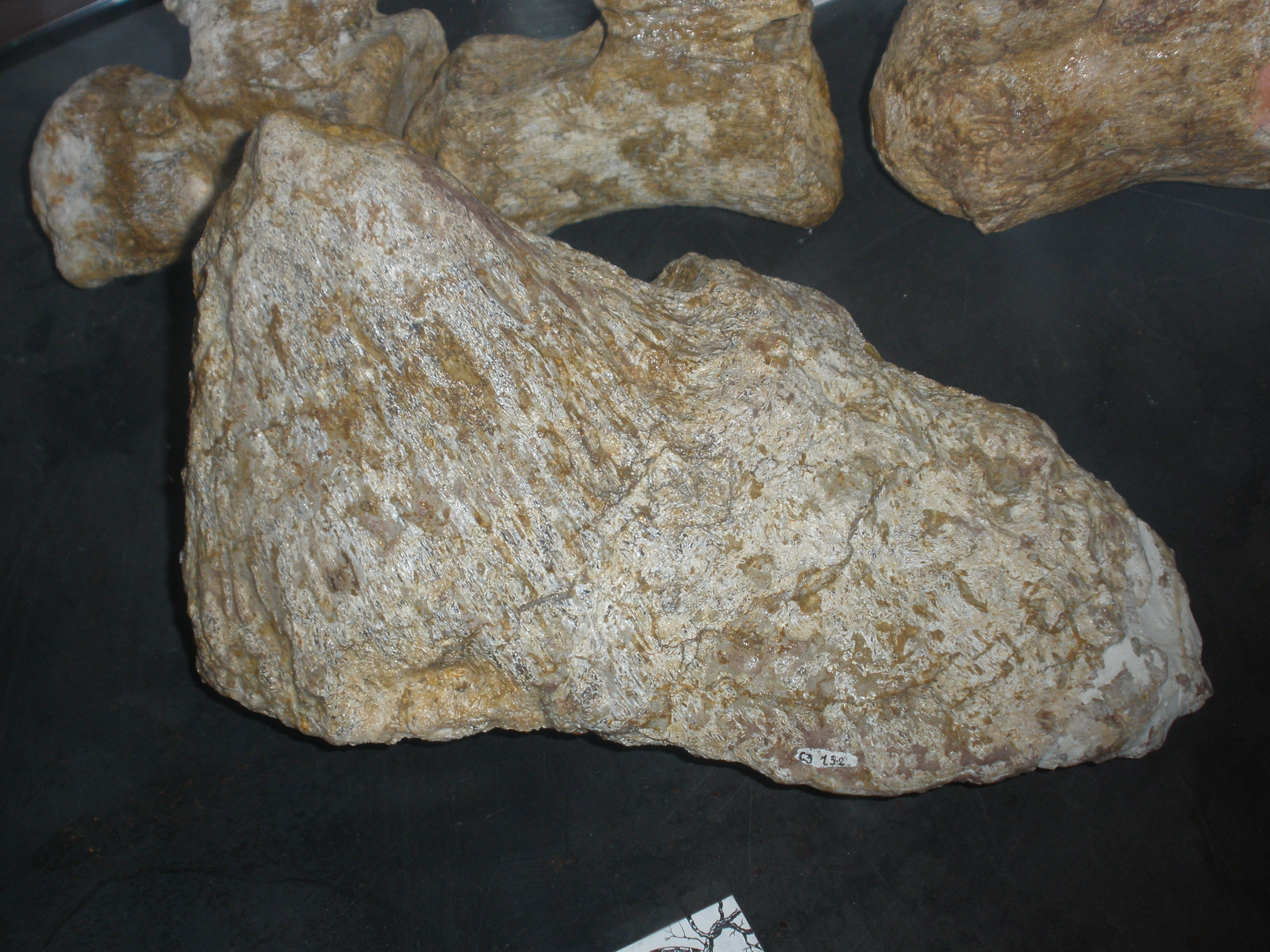 osteoderm of a titanosaurian